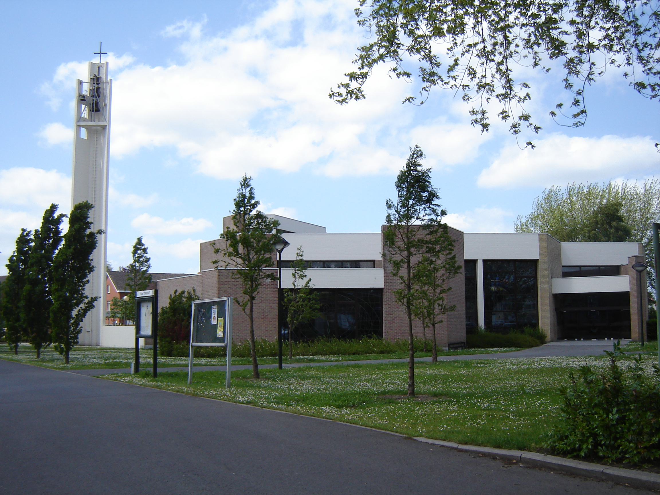 Church of Don Bosco, in Don Bosco, Torhout, West Flanders, Belgium